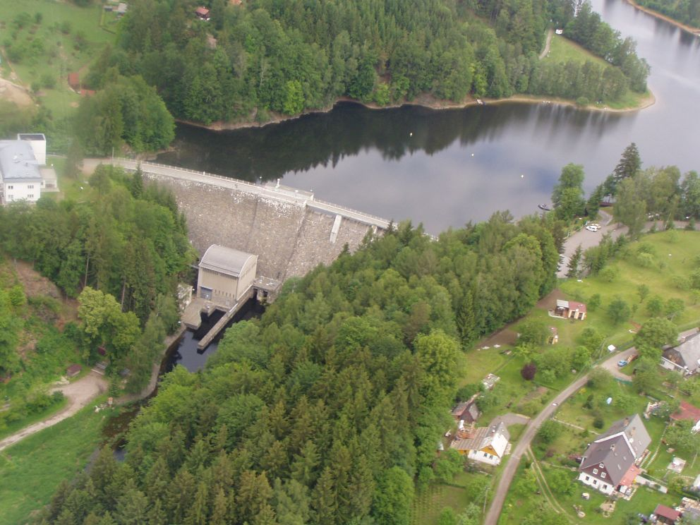 Water dam Pastviny